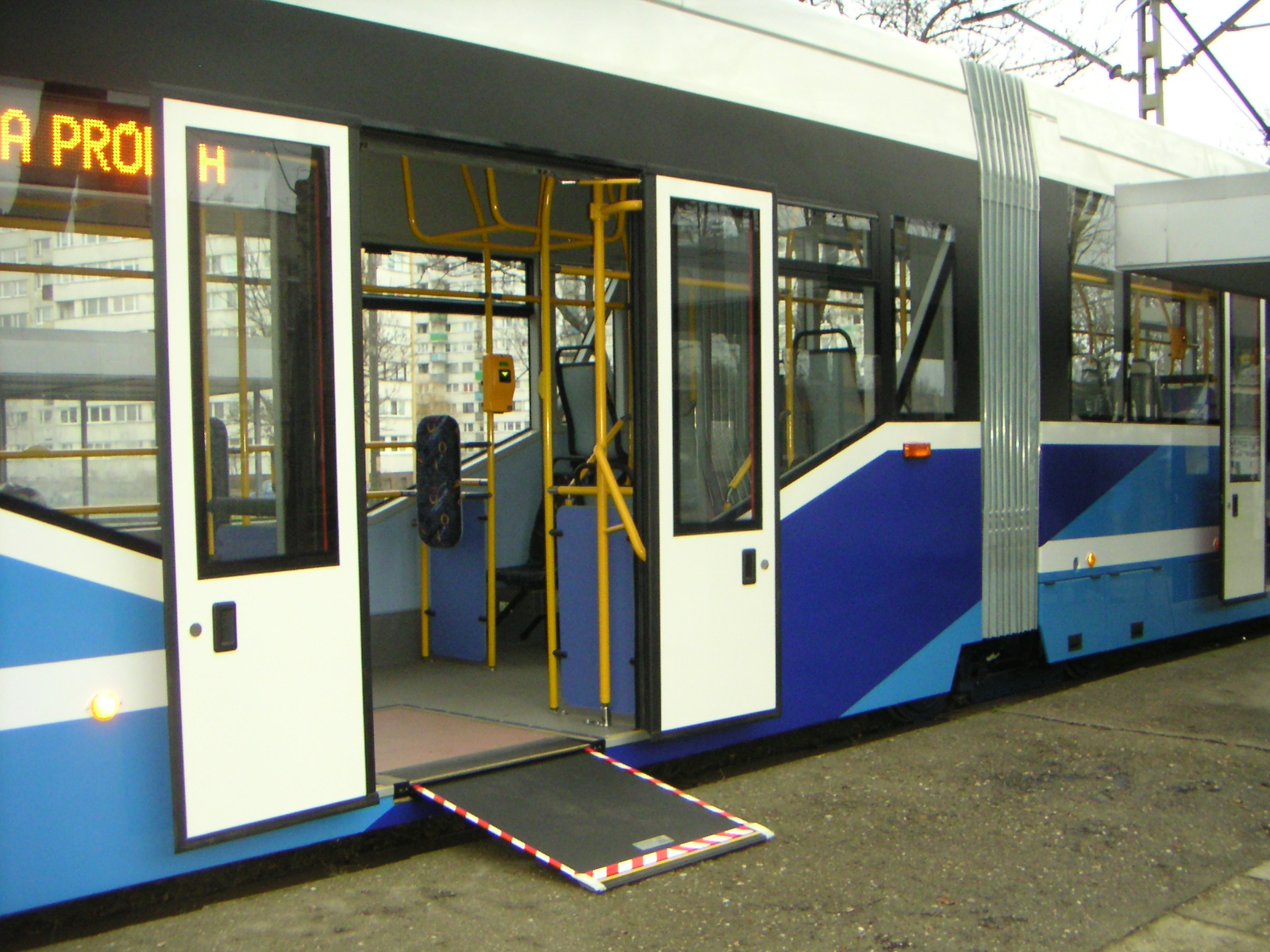 Wheelchair access ramp in Protram 205WrAs tram